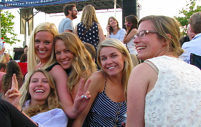 Blondes of different shades at WTMD's First Thursday Concert Series in Canton, Baltimore, Maryland in June 2014.